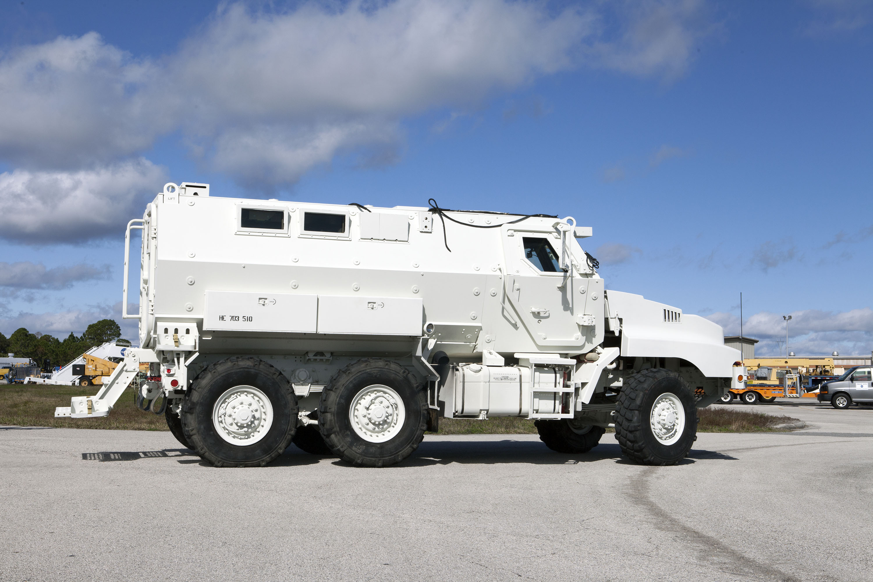 One of four new emergency egress vehicles, called Mine-Resistant Ambush-Protection, or MRAP, vehicles is driven to the Maintenance and Operations Facility at NASA’s Kennedy Space Center in Florida. The MRAPs arrived from the U.S. Army Red River Depot in Texarkana, Texas in December 2013. The vehicles were processed in and then transported to the Rotation, Processing and Surge Facility near the Vehicle Assembly Building for temporary storage. The Ground Systems Development and Operations Program at Kennedy led the efforts to an emergency egress vehicle that future astronauts could quickly use to leave the Launch Complex 39 area in case of an emergency. During crewed launches of NASA’s Space Launch System and Orion spacecraft, the MRAP will be stationed by the slidewire termination area at the pad. In case of an emergency, the crew will ride a slidewire to the ground and immediately board the MRAP for safe egress from the pad. The new vehicles replace the M-113 vehicles that were used during the Space Shuttle Program.